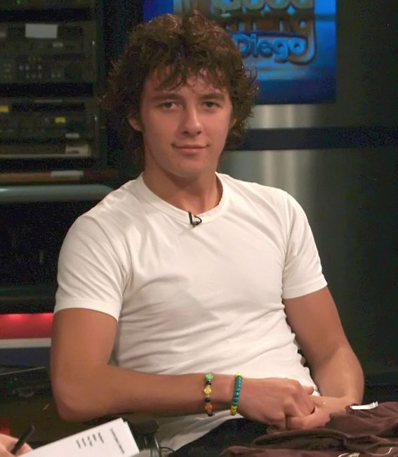 Matthew Underwood in San Diego, 2008.